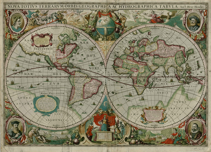 1630 Nova totius terrarum orbis geographica Map by Hendrik Hondius. Relief shown pictorially; Map within decorative border, with portraits of Julius Caesar, Ptolomey, Gerhard Mercator and Jodocus Hondius and tableaus depicting the 4 elements (Earth, Air, Fire, Water).